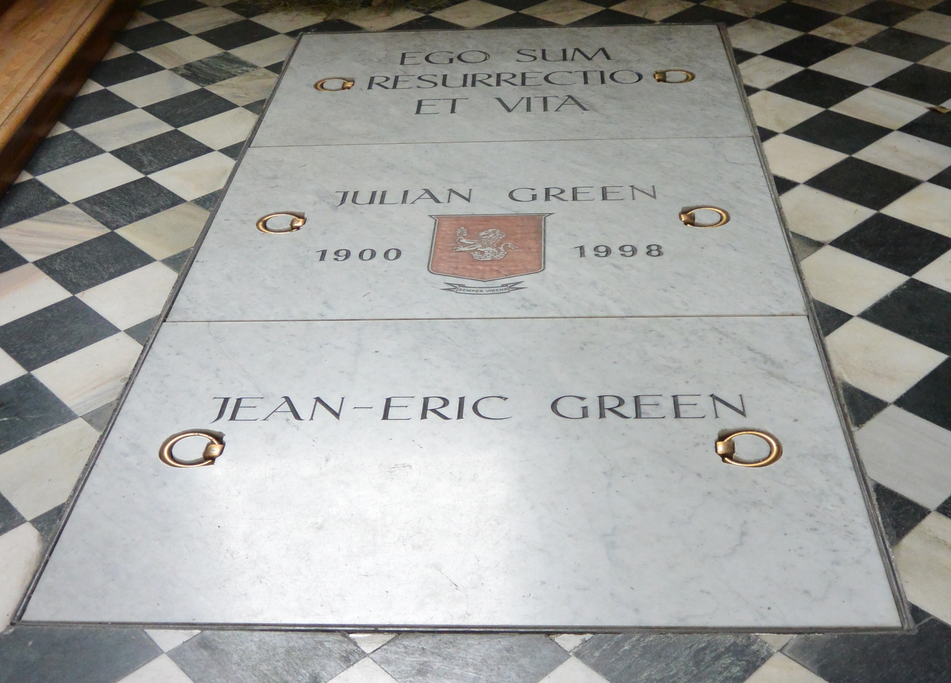 Main parisch church of Klagenfurt